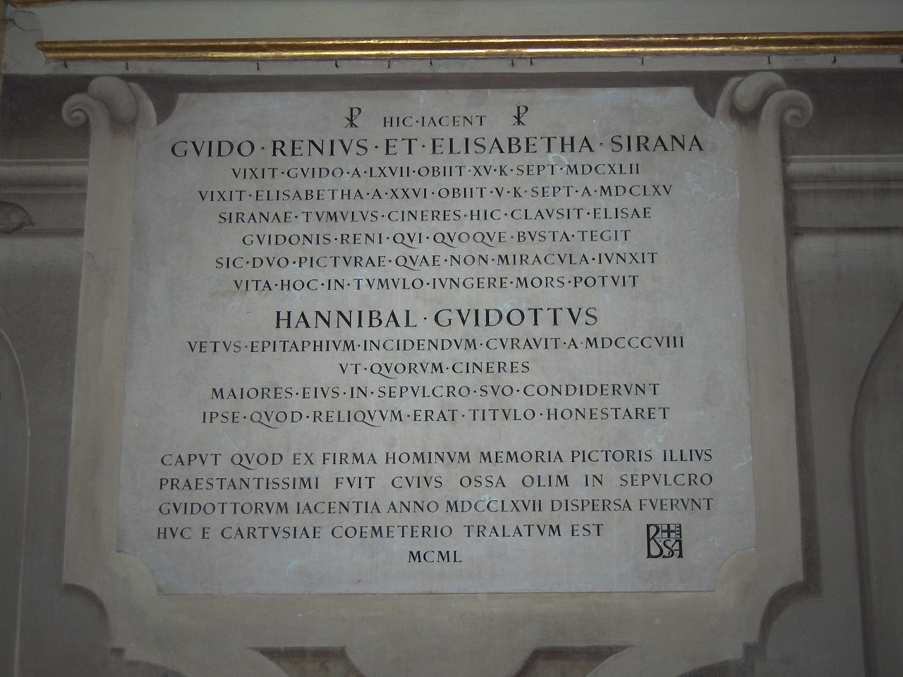 tomb (after reburial) of Guido Reni and Elisabetta Sirani; Rosary Chapel; Basilica of Saint Dominic, Bologna, Italy